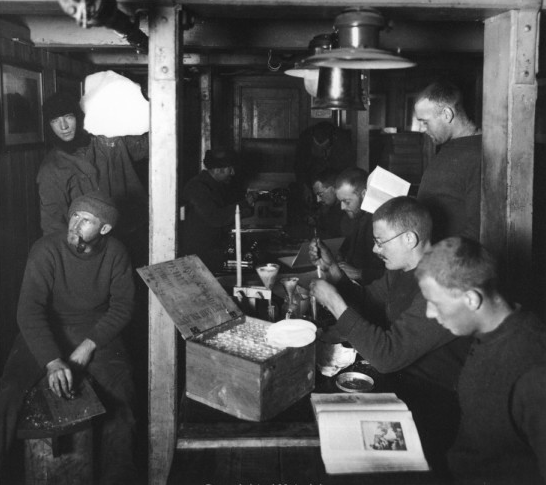 A midwinter evening in "The Ritz" on board Endurance